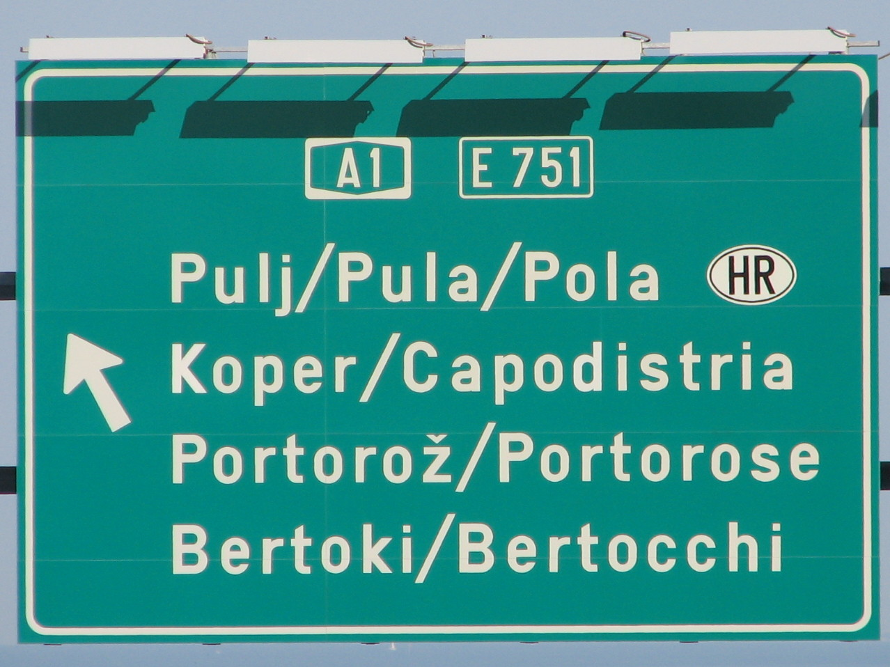 Trilingual traffic sign on A1 motorway near Koper, Slovenia. Traffic sign displays names of the cities in Slovene (official language in Slovenia; Pulj, Portorož, Koper, Bertoki) and Italian (language of national minority in Koper; Pola, Portorose, Capodistria, Bertocchi). The title for Pula (Croatia) also displays the name of the city in Croatian, since this is the official language of Croatia.